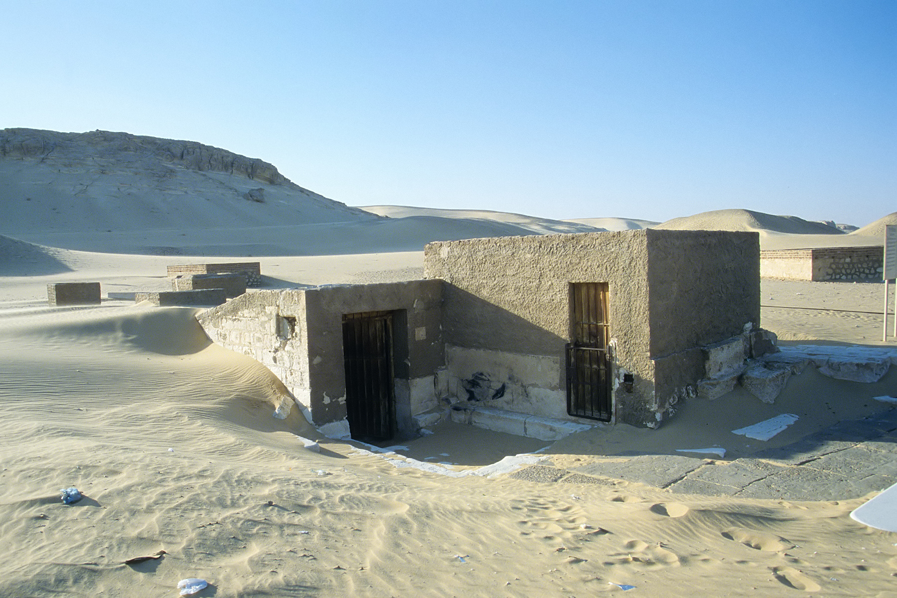 Entrance to the animal necropolis, Tuna el-Gebel, Egypt